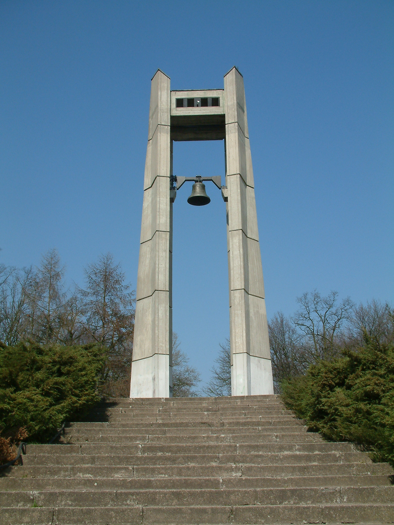 Bell of Peace in Poznan Citadelle